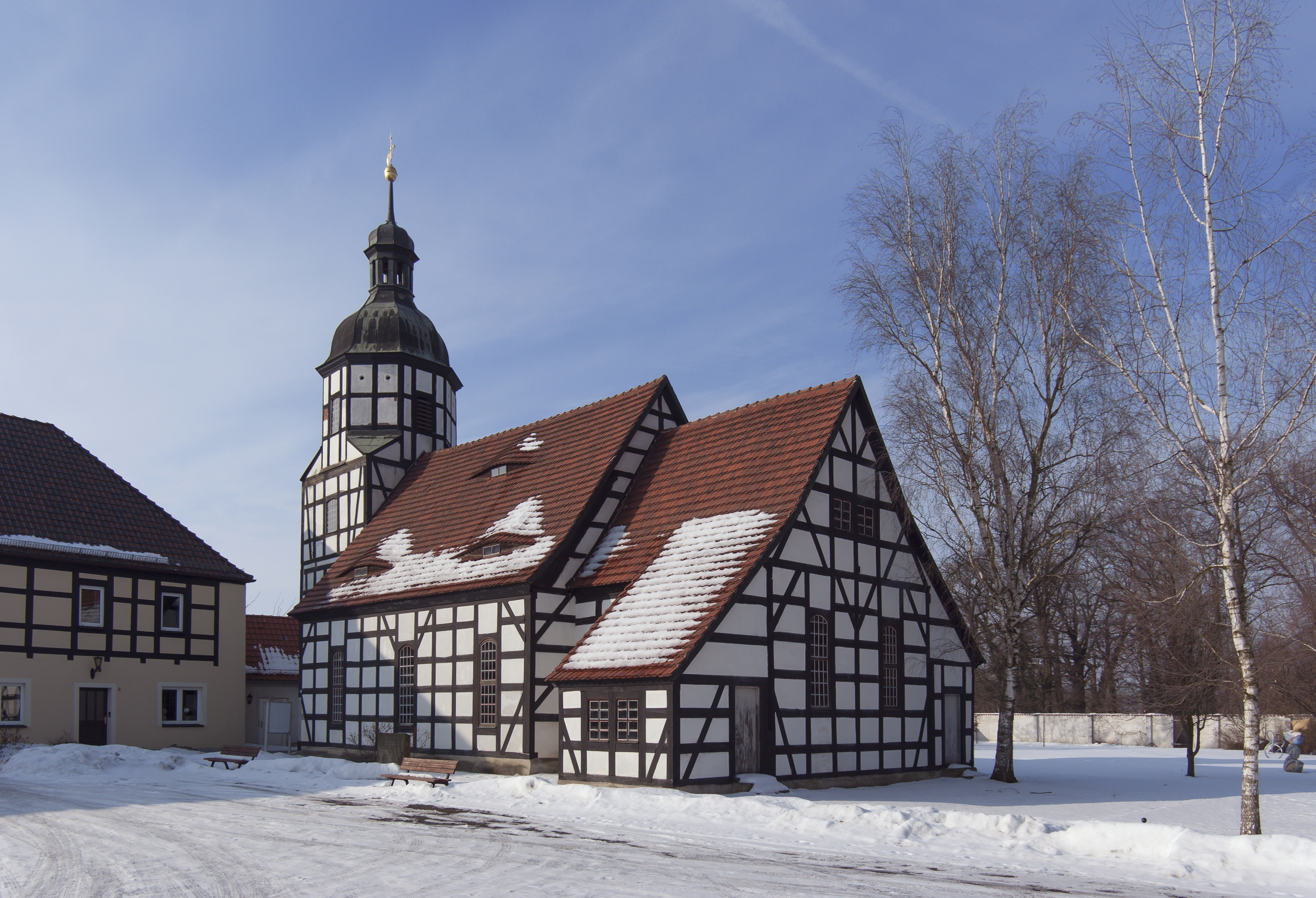 Gut Saathain, Röderland, Brandenburg, Germany